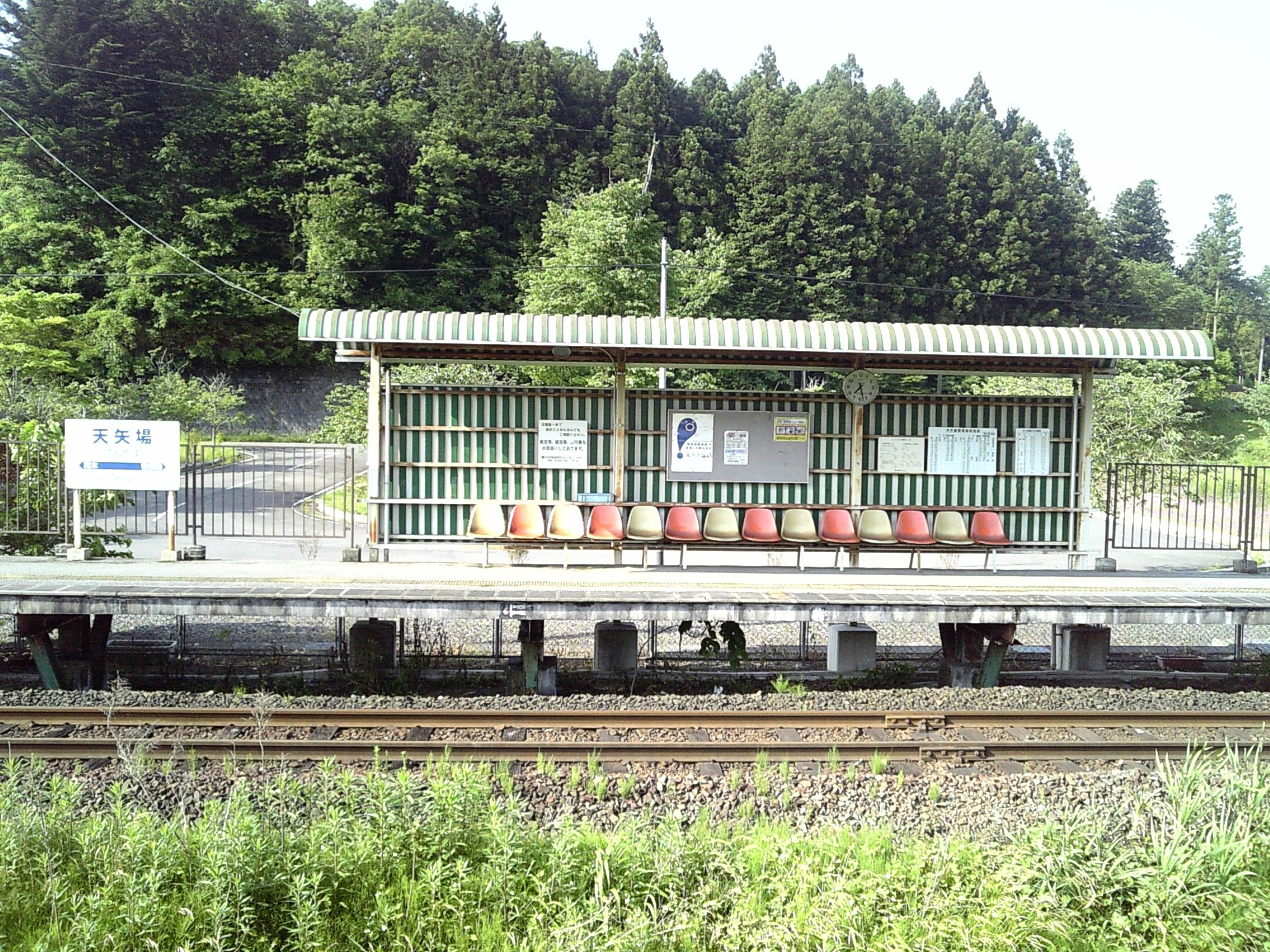 Moka Railway Moka Line Ten'yaba Station.